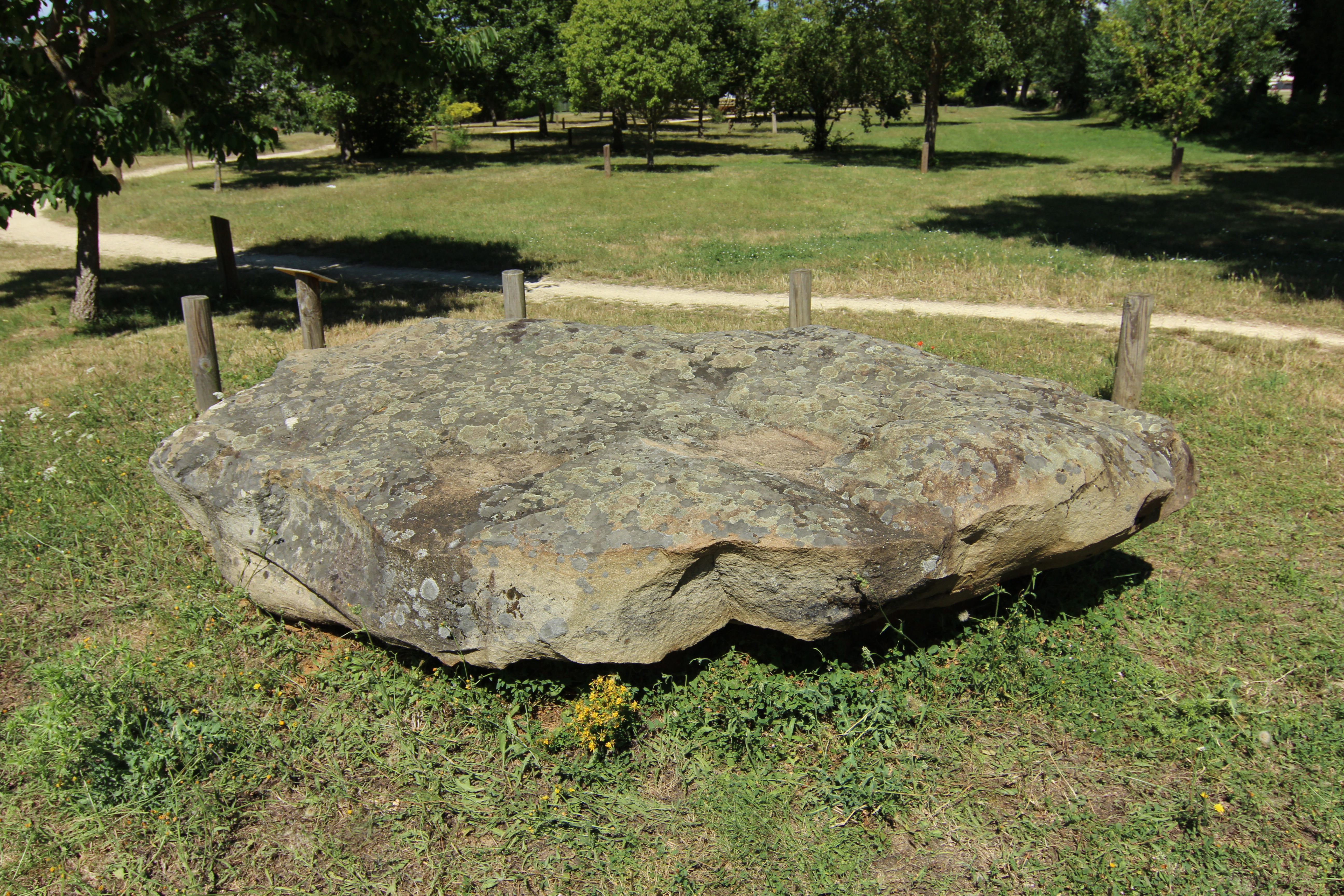 Menhir and grooves of Souhé in Naintré, France. Object location46° 45′ 36.68″ N, 0° 28′ 49.87″ E .